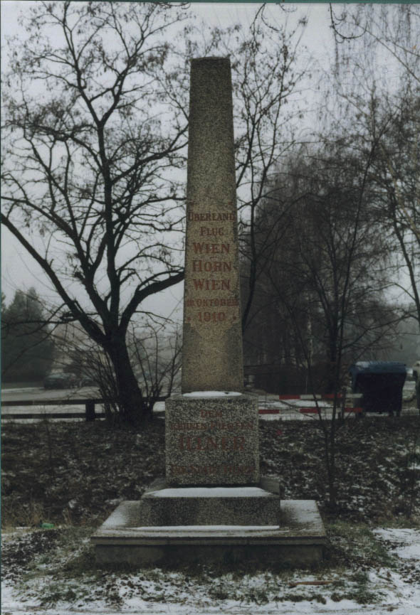 Memorial for the flight Vienna-Horn-Vienna of Karl Illner in 1910 in Horn